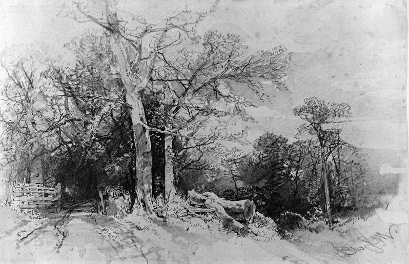 "Trees with felled timber", pencil and wash drawing